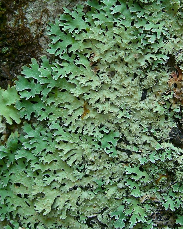 Scientific Name: Rimelia subisidiosa (Mull. Arg.) Hale & Fletcher Common Name: Cracked Ruffle Lichen Certainty: positive (notes) Location: Southern Appalachians; Smokies; CabinCove Date: 20060627